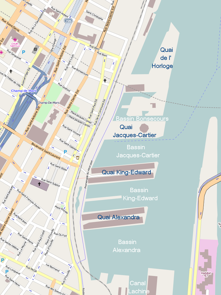 Map of the Old Port of Montreal